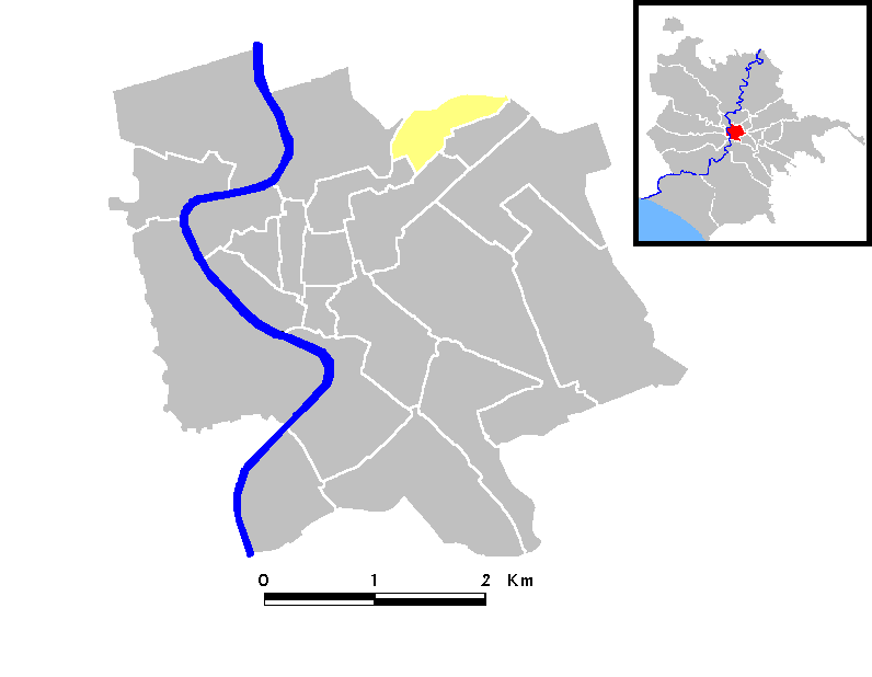 Locator maps of Rome (rioni)